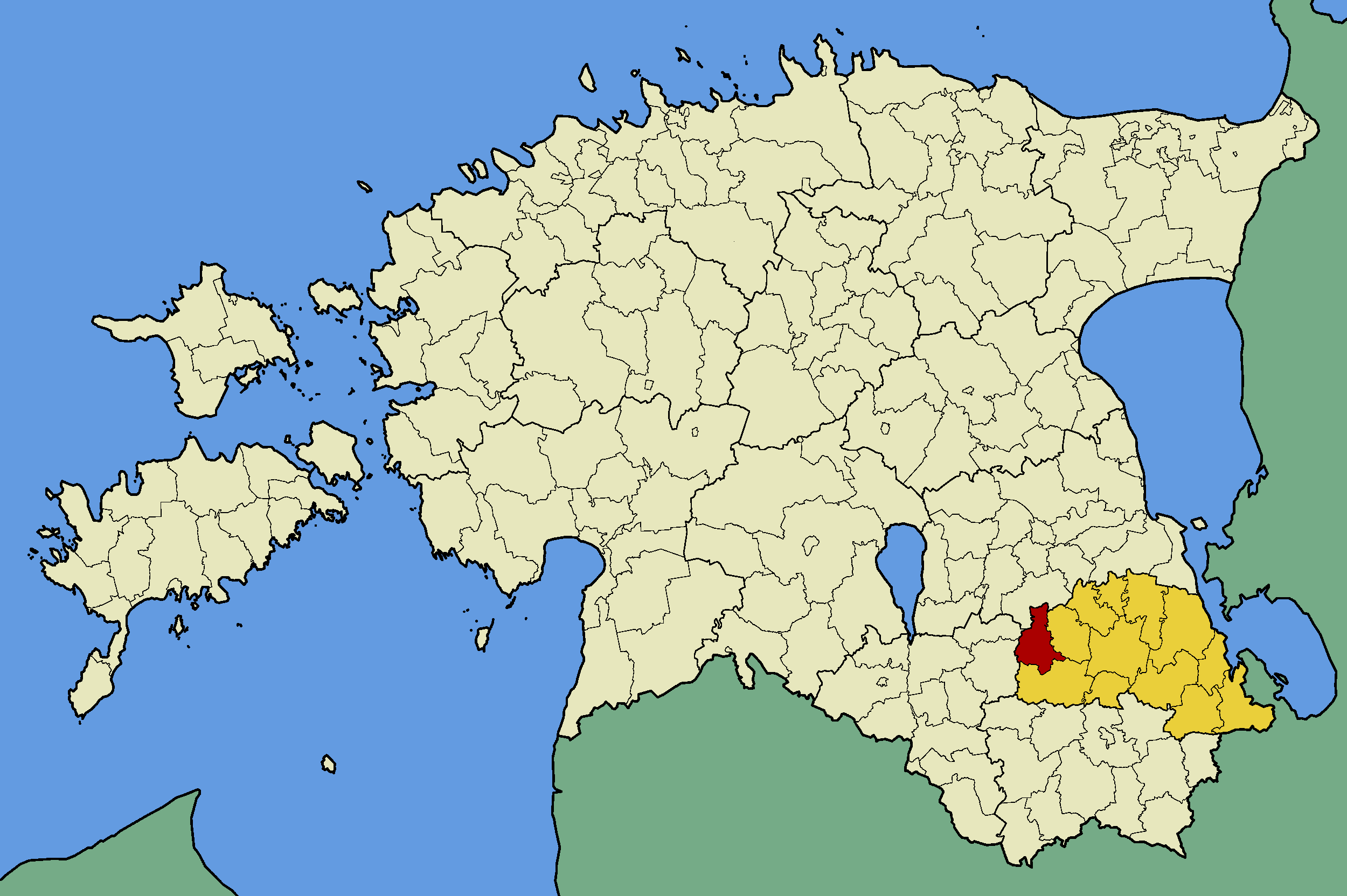 Map of Estonia with borders of municipalities (parishes). Põlva county and Valgjärve municipality emphasized.